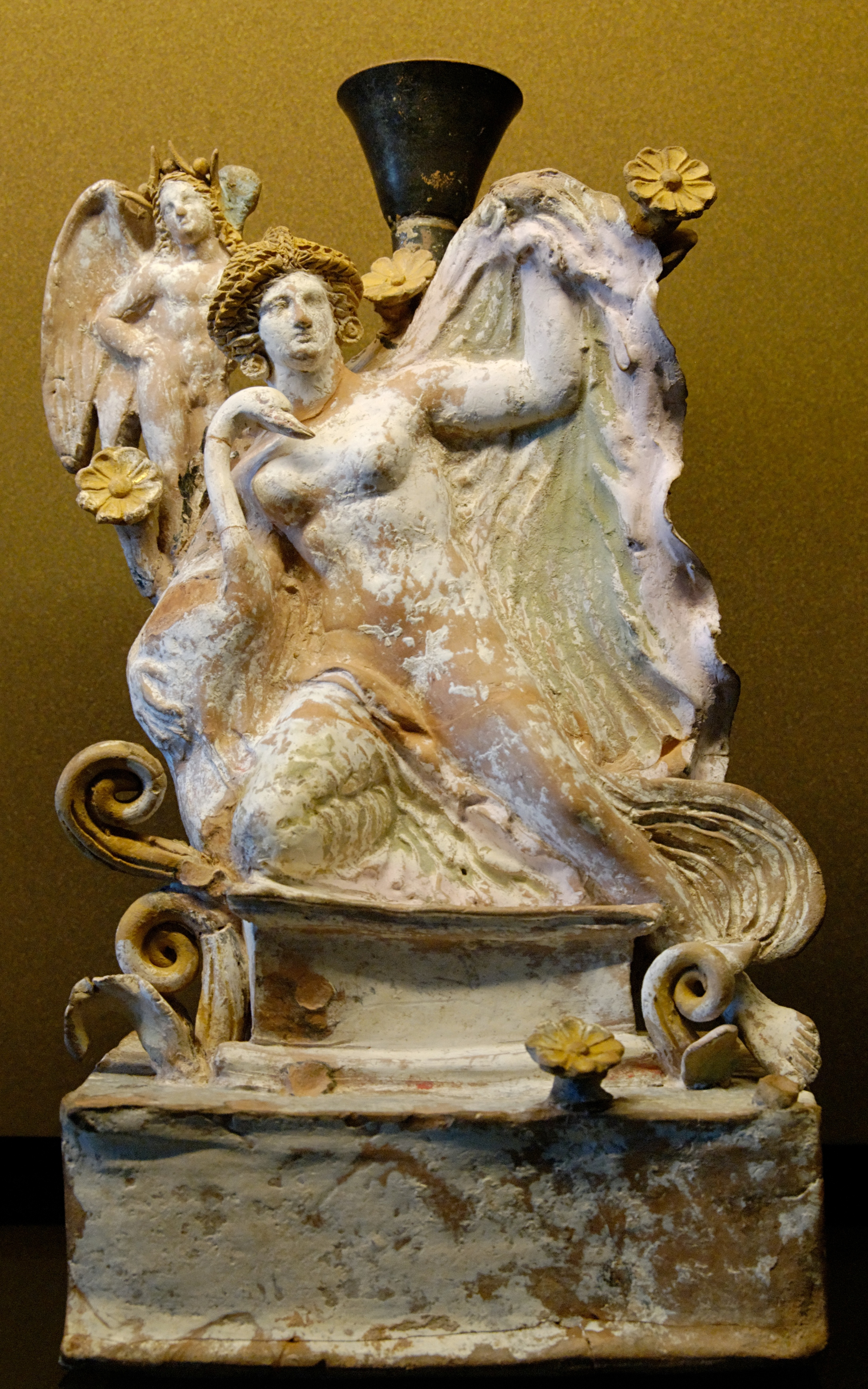 Leda and the swan. Attic plastic lekythos, ca. 375–350 BC. Probably from Attica.